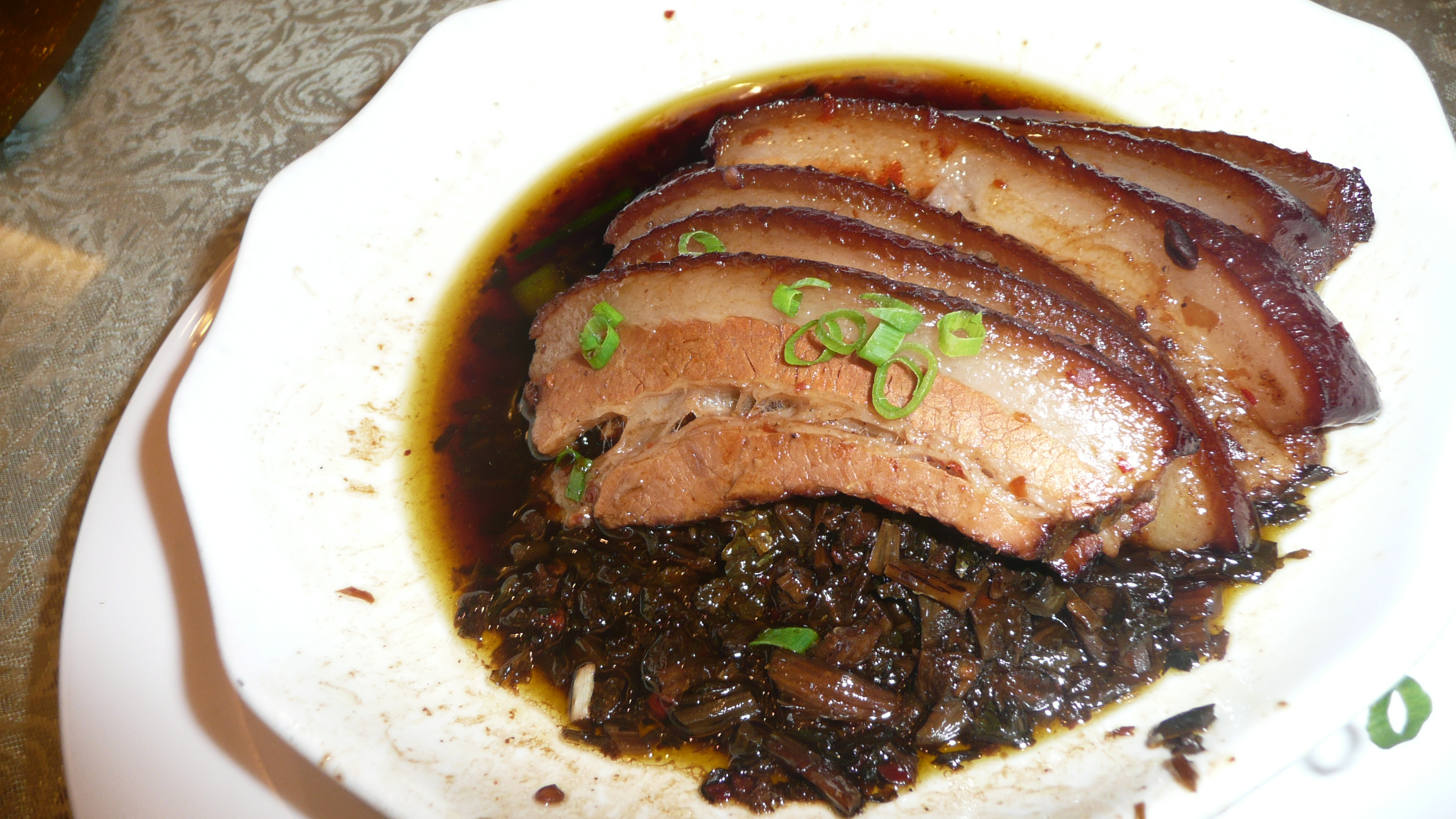 Cuisine of China, Shenzhen, Guangdong